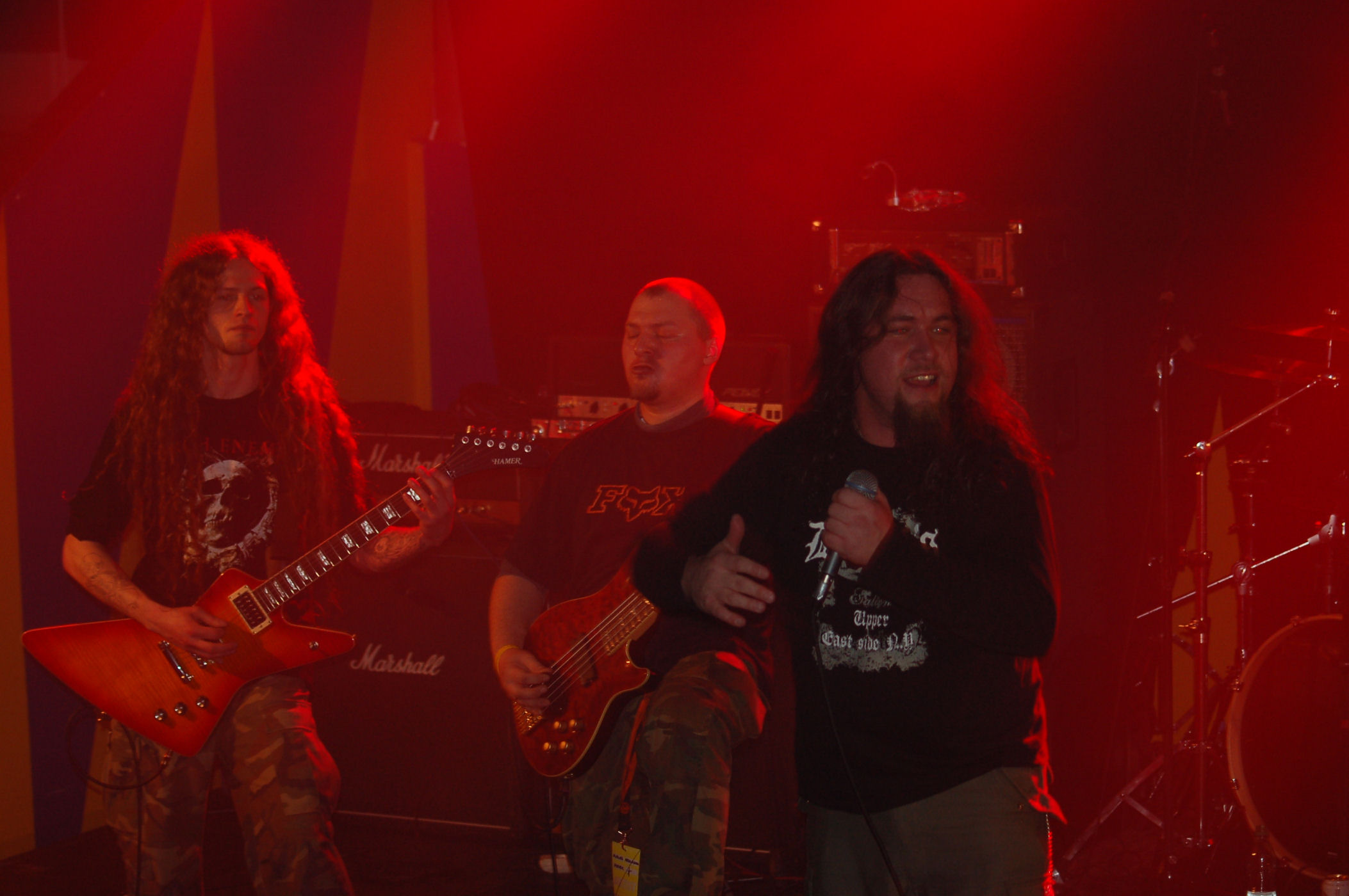 Horrorscope during Metalmania 2007 festival